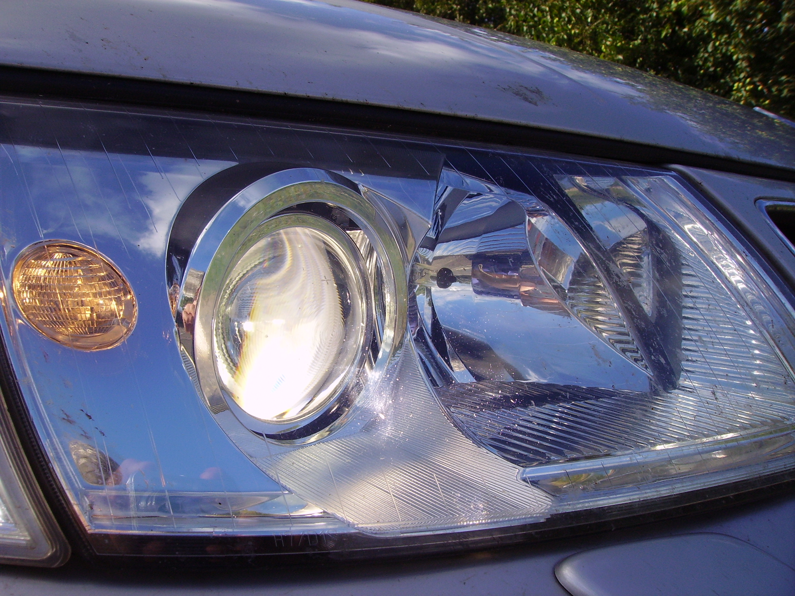 Xenon dipped-beam headlamp (Saab 9-5)